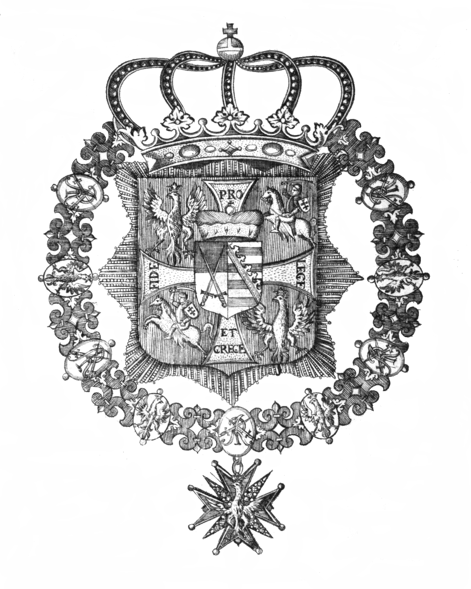 Order of the White Eagle of King Augustus II the Strong